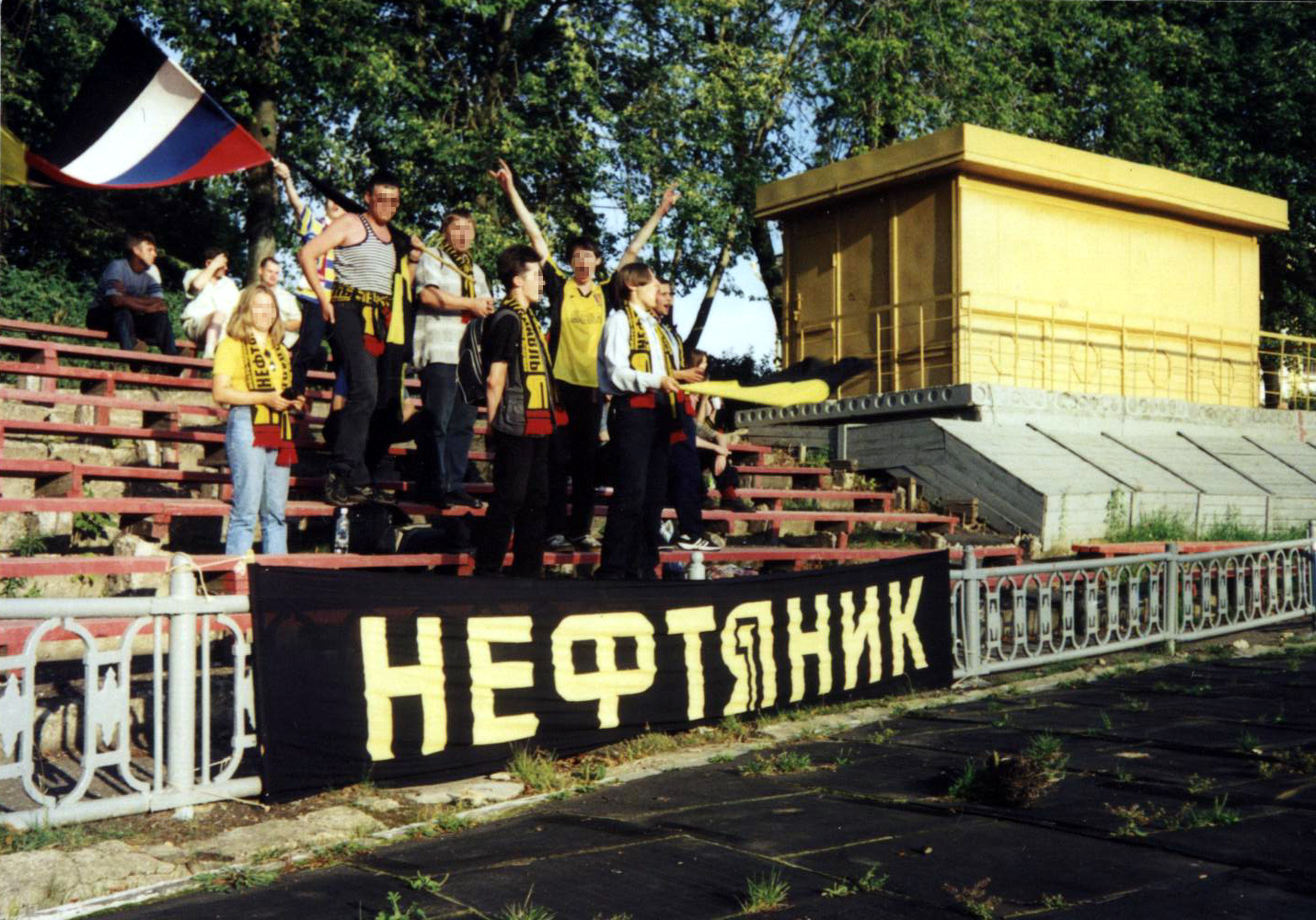 Fans of the FC Neftyanik Yaroslavl in the Kostroma City 2000.